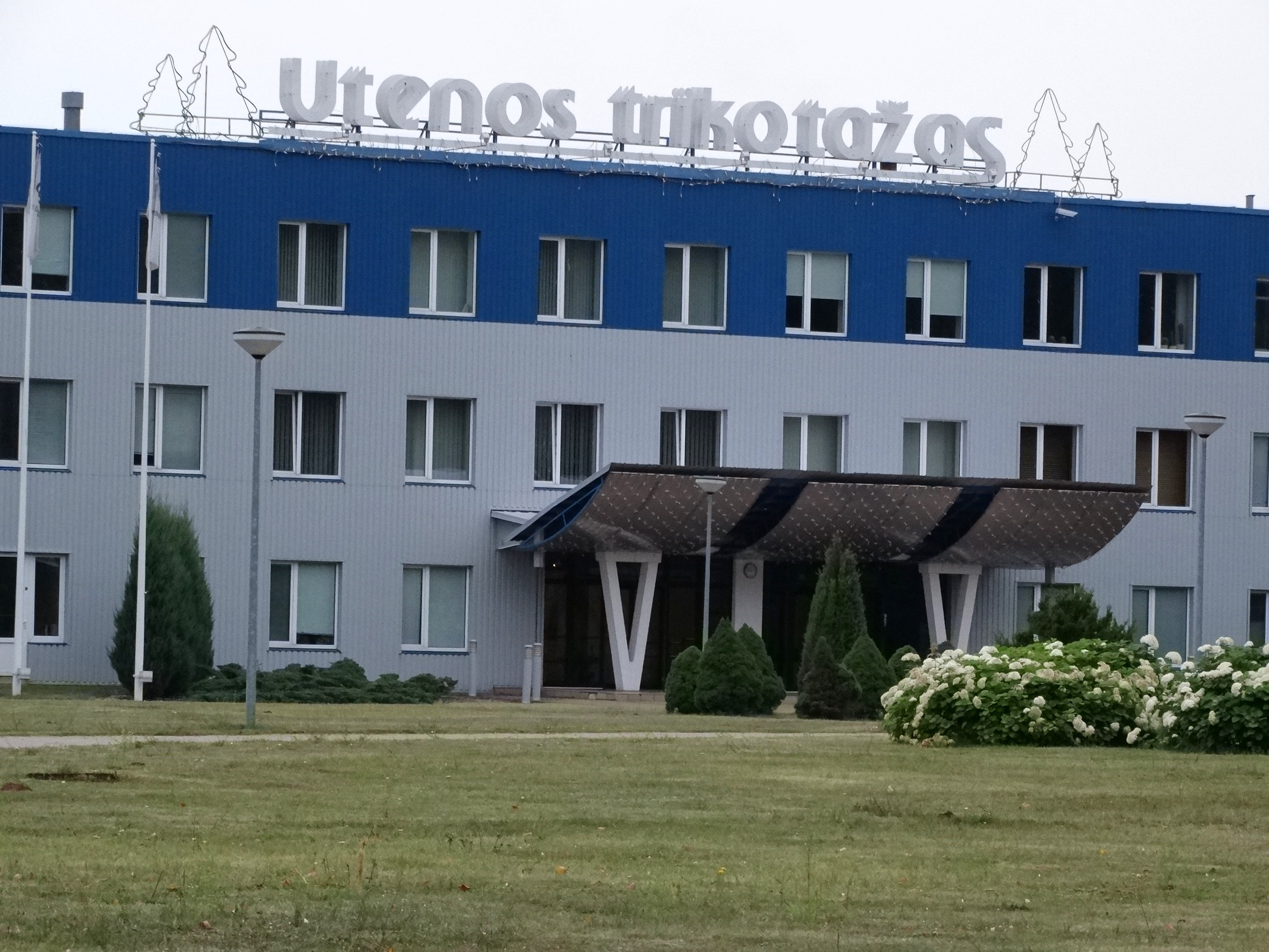 „Utenos trikotažas“, Utena, Lithuania